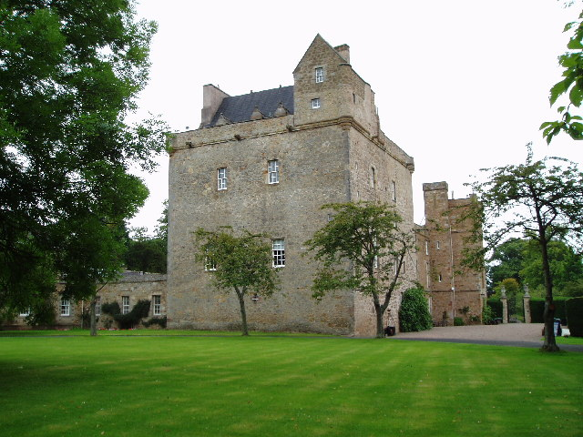 Lennoxlove House. This house it is thought dates from the 15th Century and is the ancestral home of the Duke of Hamilton.